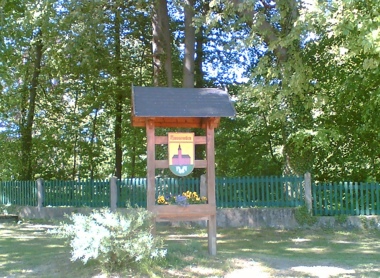 Hunnesrück coat of arms sign, Germany